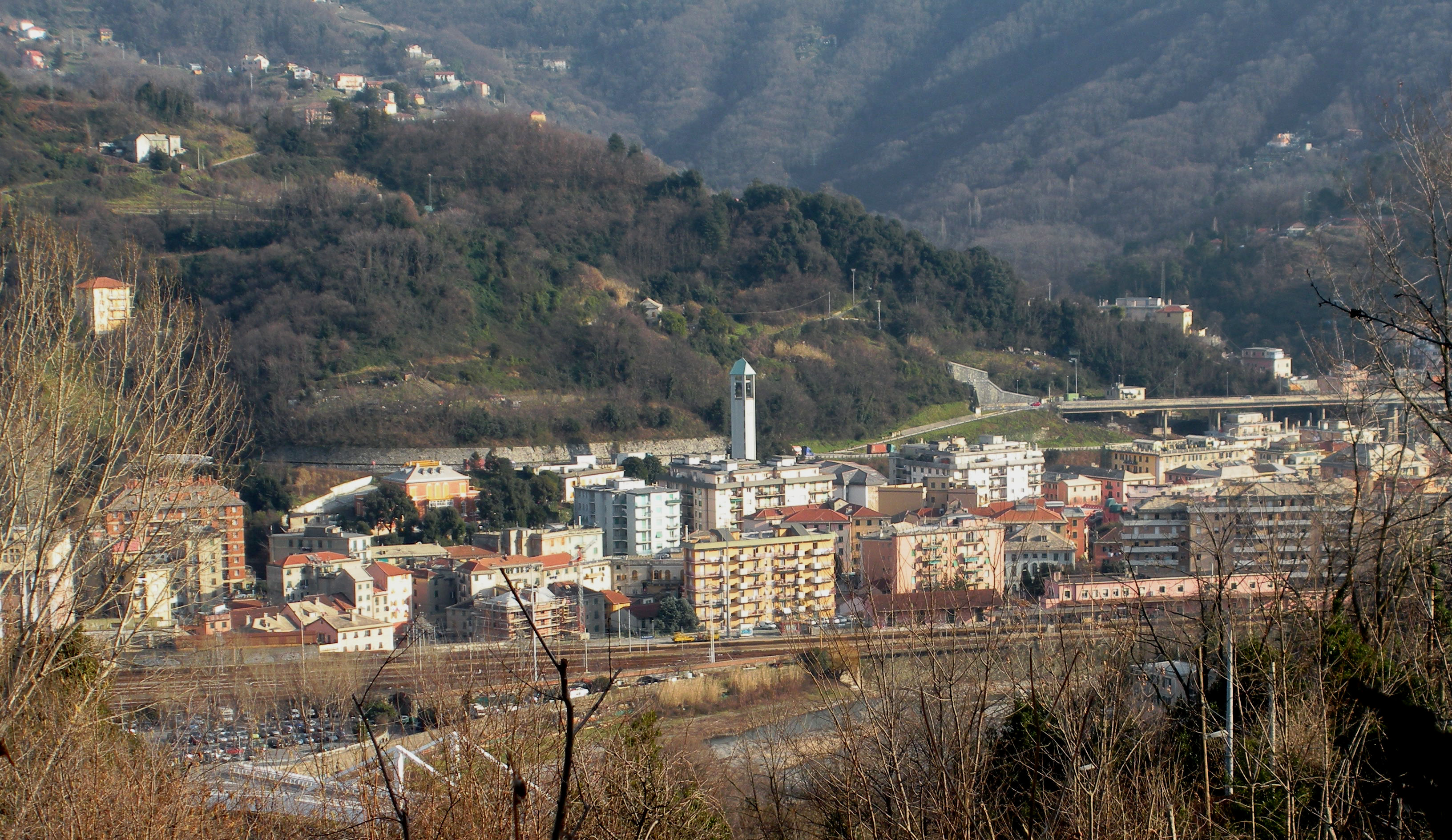 Genoa (Italy), quarter of Bolzaneto, view of the quarter from Murta